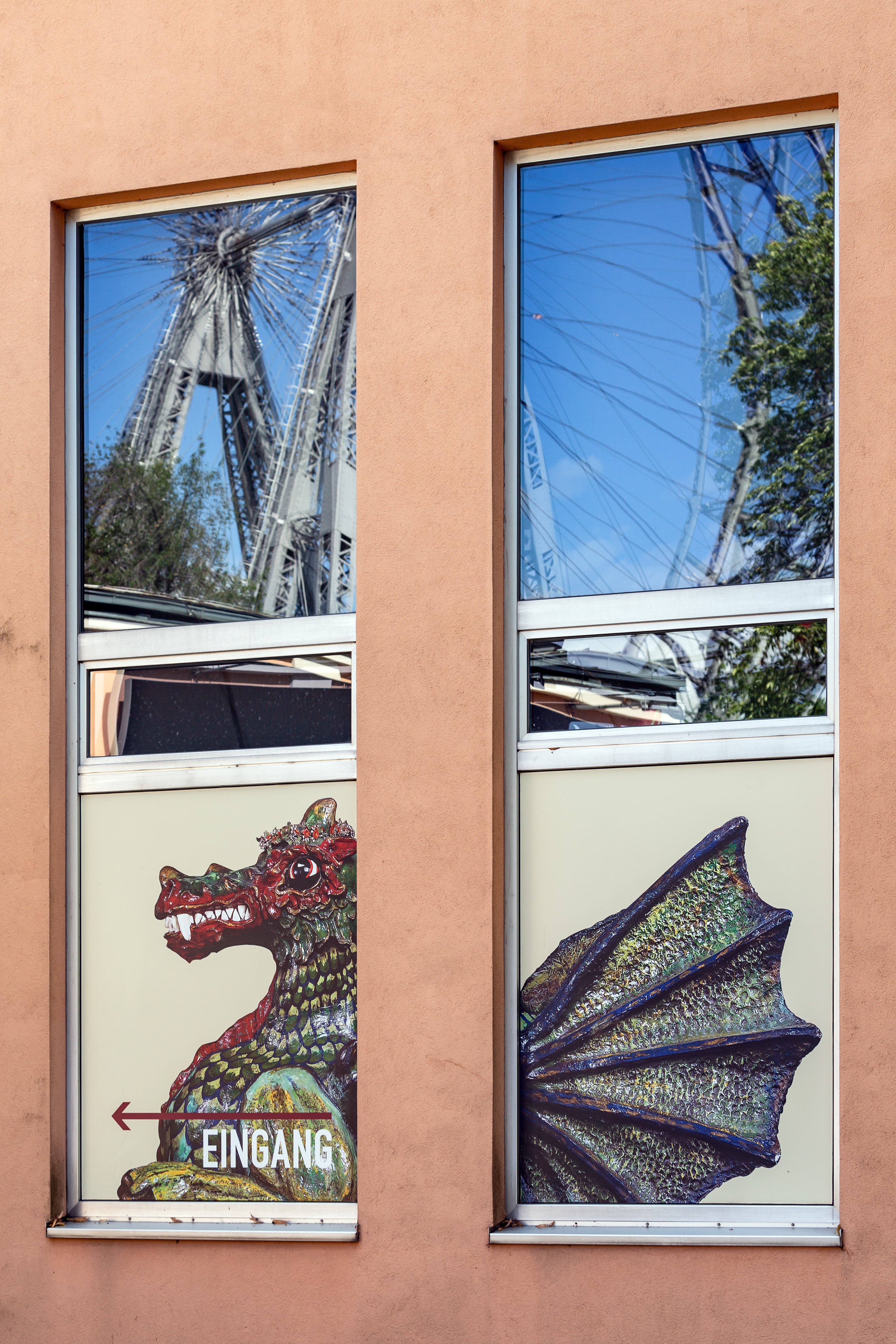 Prater Museum of the Vienna Museum near the planetarium at Prater in Vienna, Austria 'Pratermuseum' (Q86367511)